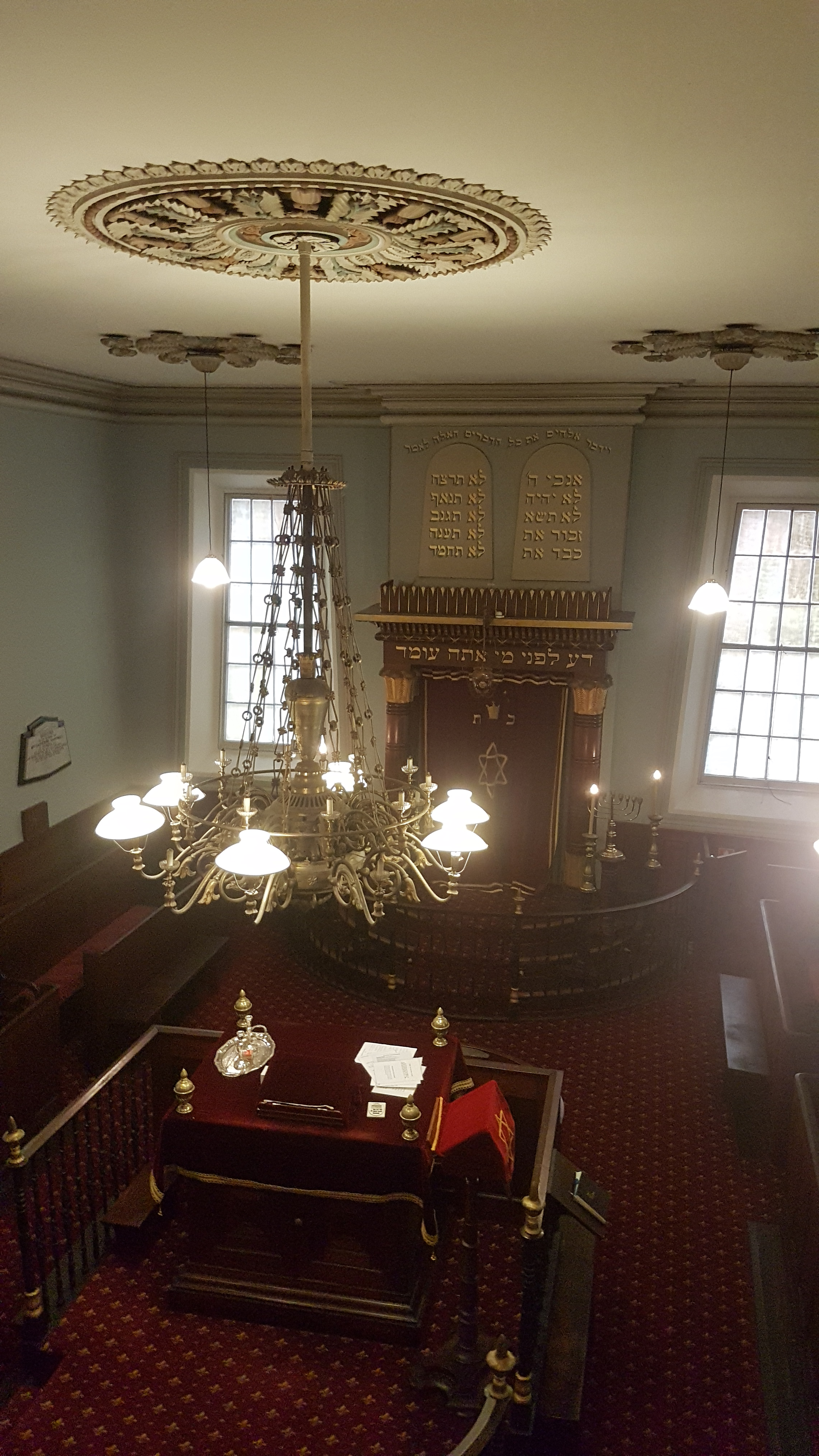 The inside of the Hobart Synagogue from the women's gallery